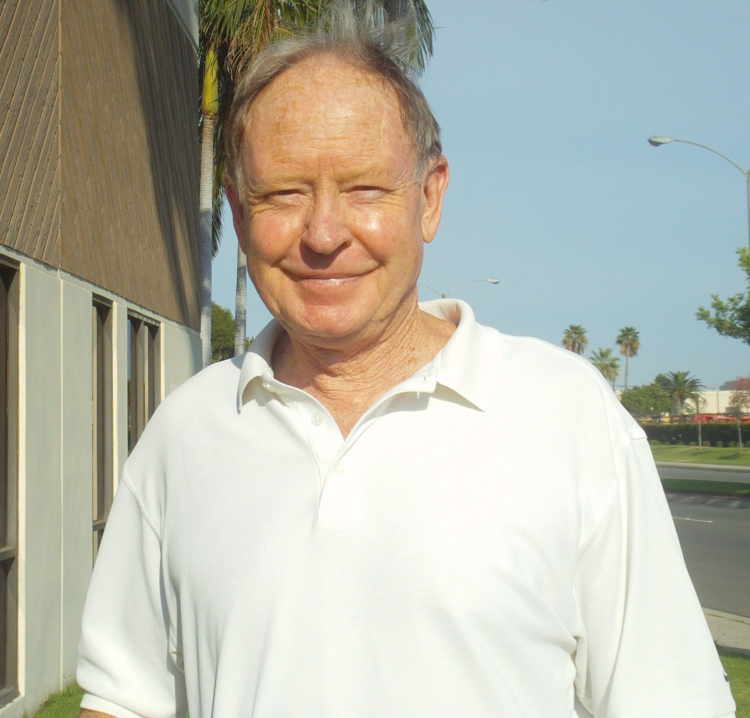 Bob Larsen